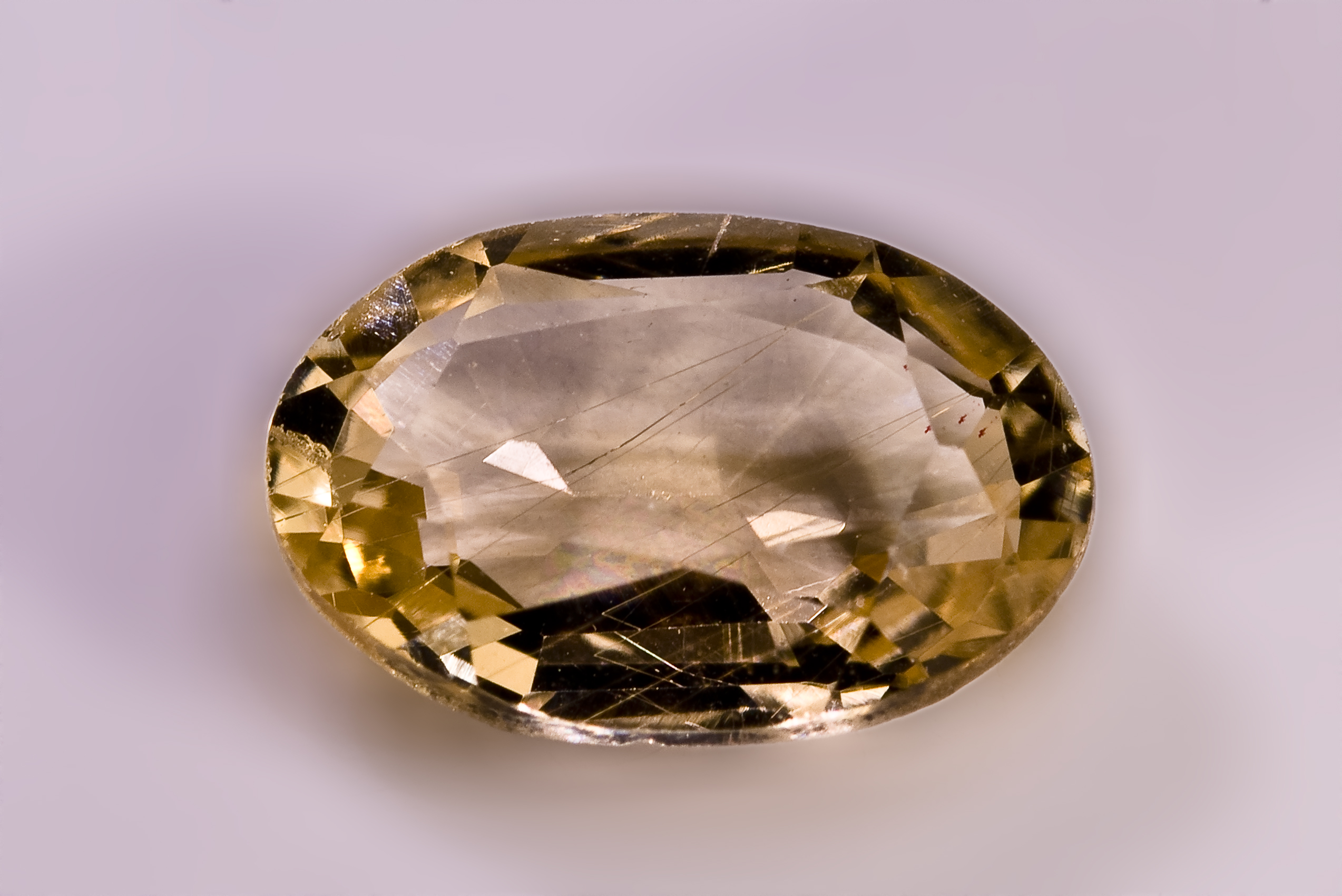 Danburite Locality : Anjanabonoina, Ikaka, Ambohimanambola Commune, Betafo District, Vakinankaratra Region Antananarivo Province, Madagascar (0.47Cts)